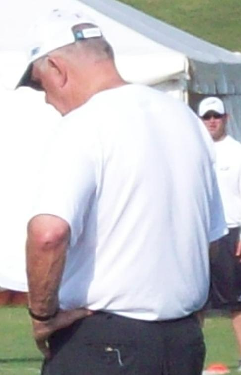 Former Defensive Coordinator of the Philadelphia Eagles Jim Johnson